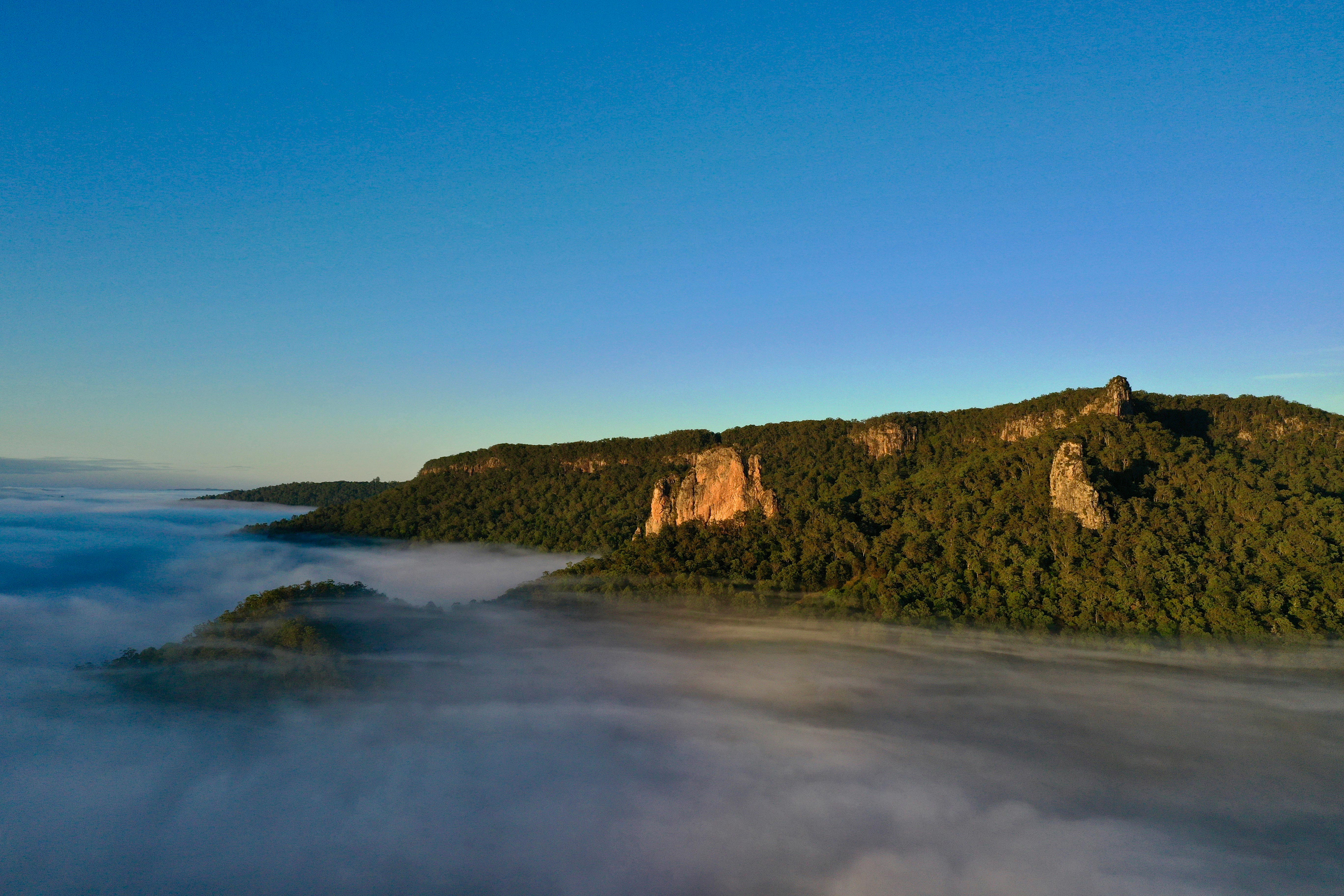 Nimbin Rocks Morning Fog Aerial Shot in the Northern Rivers of NSW Australia